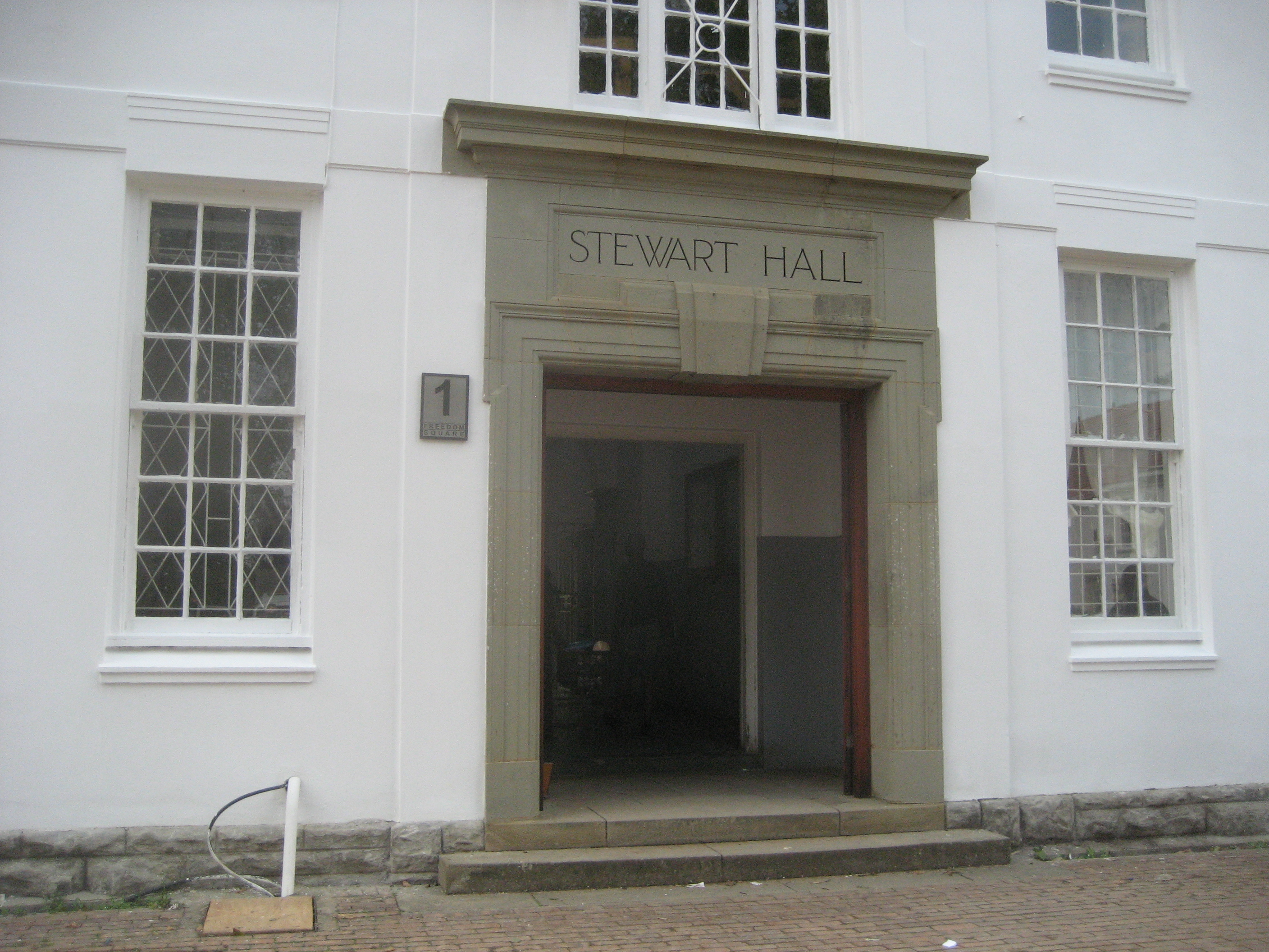 Stewart Hall, University of Fort Hare (South Africa)